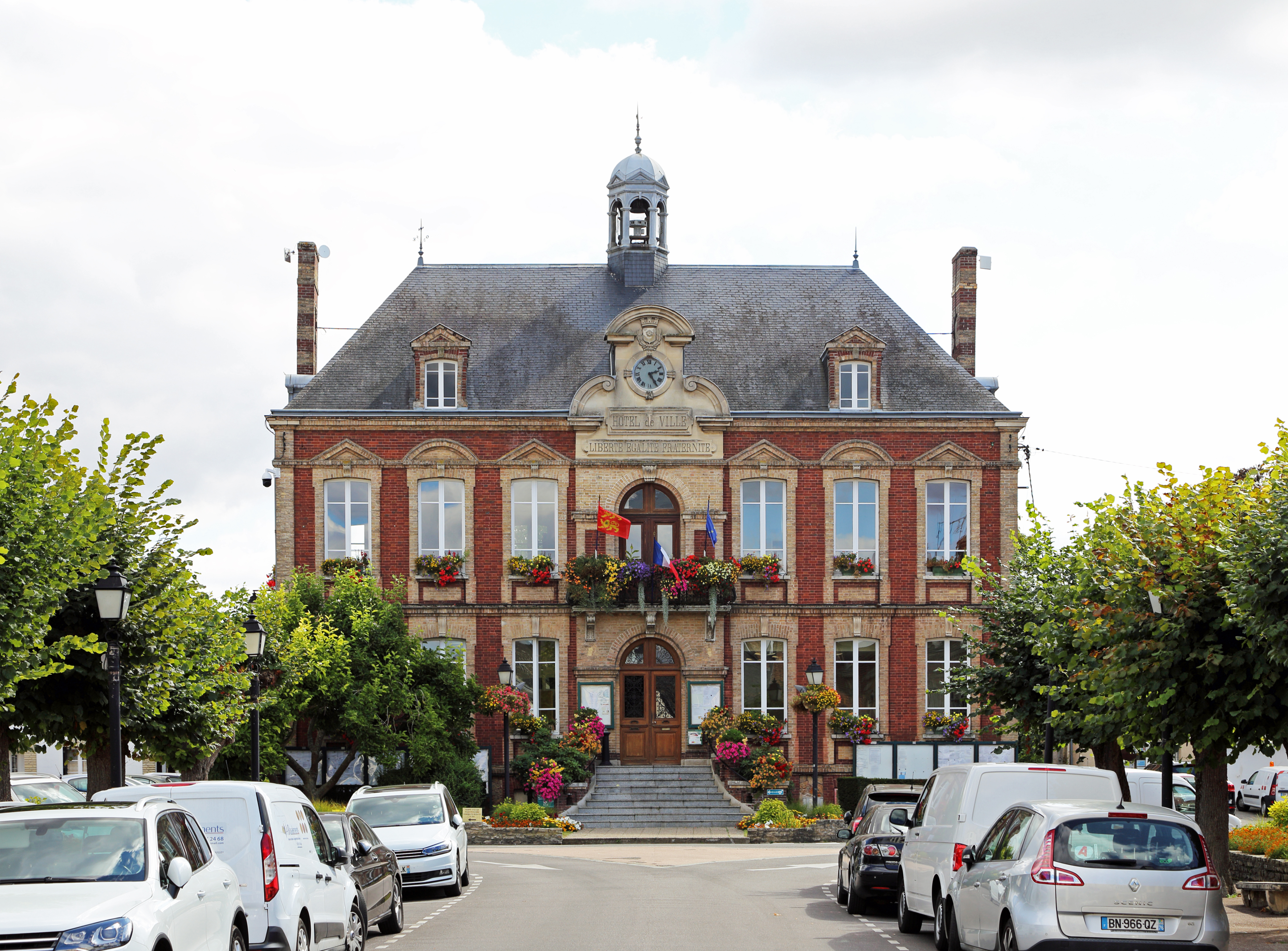 Pacy-sur-Eure (Eure department, France): town hall